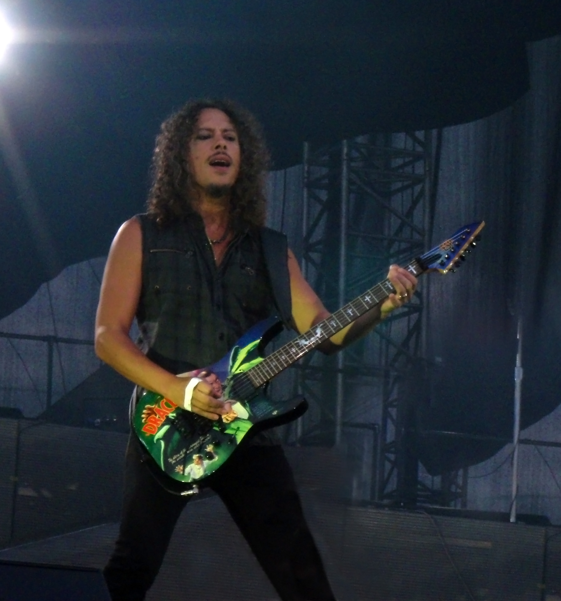 Kirk Hammett from Metallica performing at Sonisphere Festival in Kirjurinluoto, Pori, Finland.